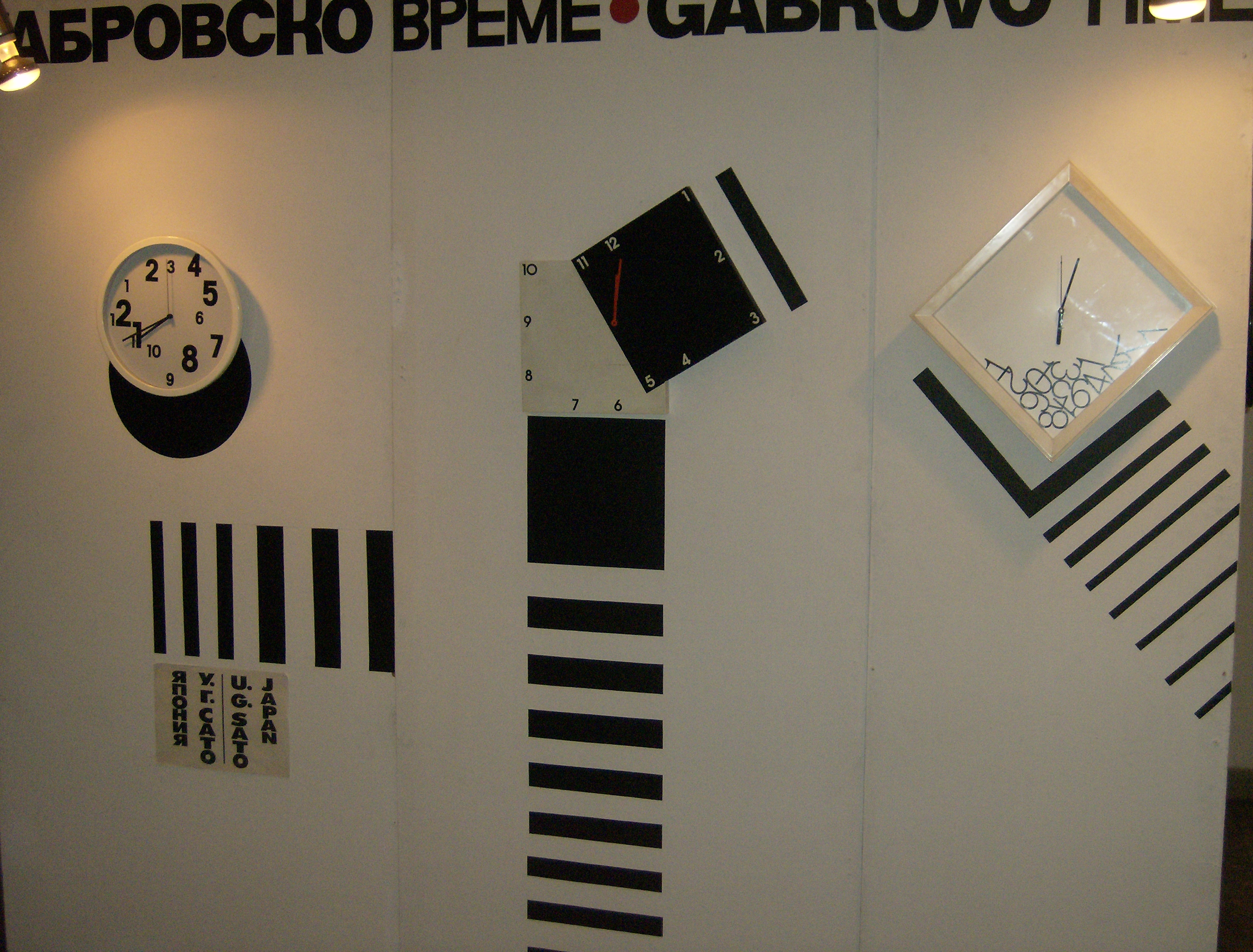 Gabrovo time